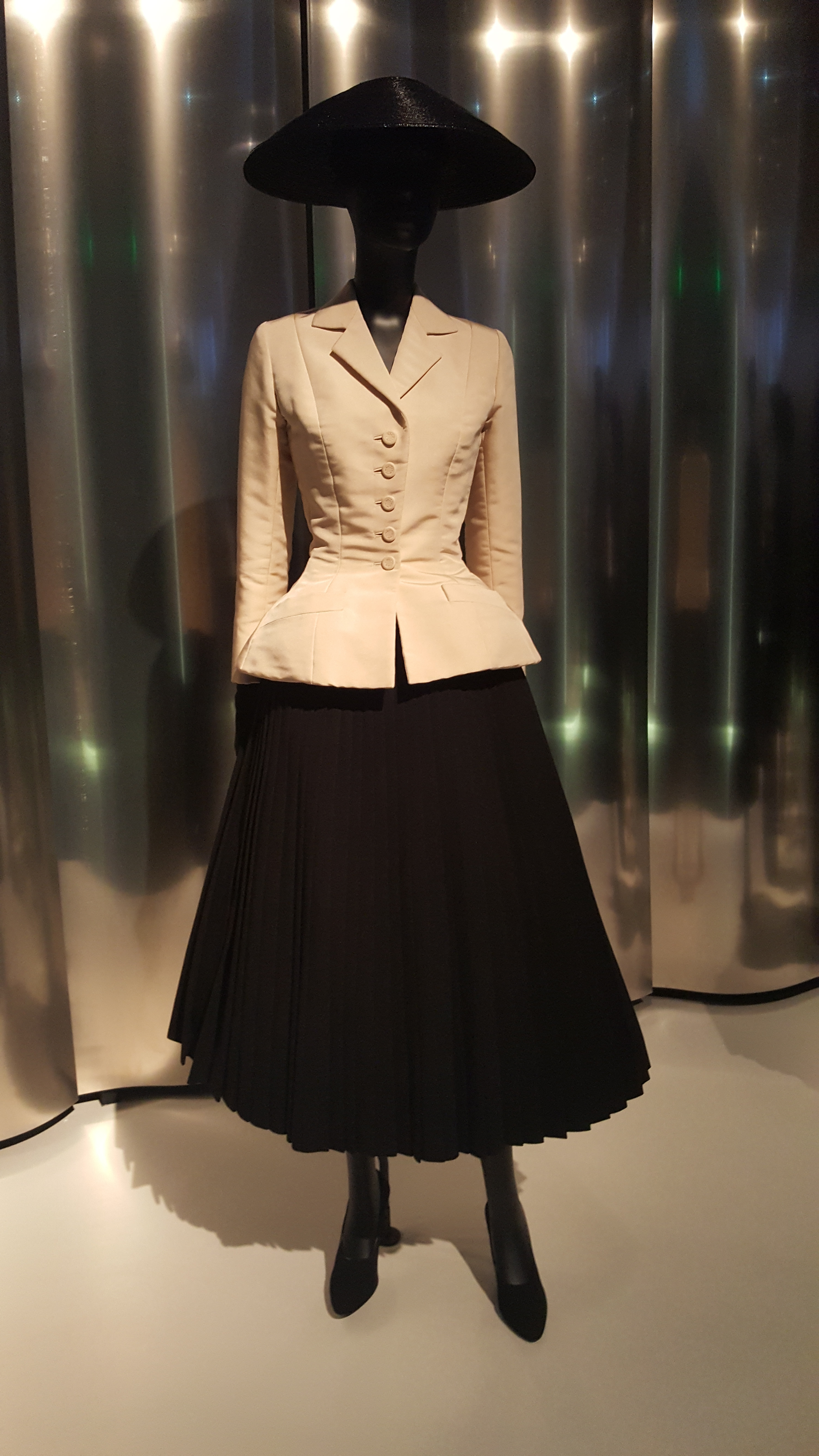 Silk shantung and pleated wool bar suit by Christian Dior (Spring-Summer 1947) on display at the Denver Art Museum